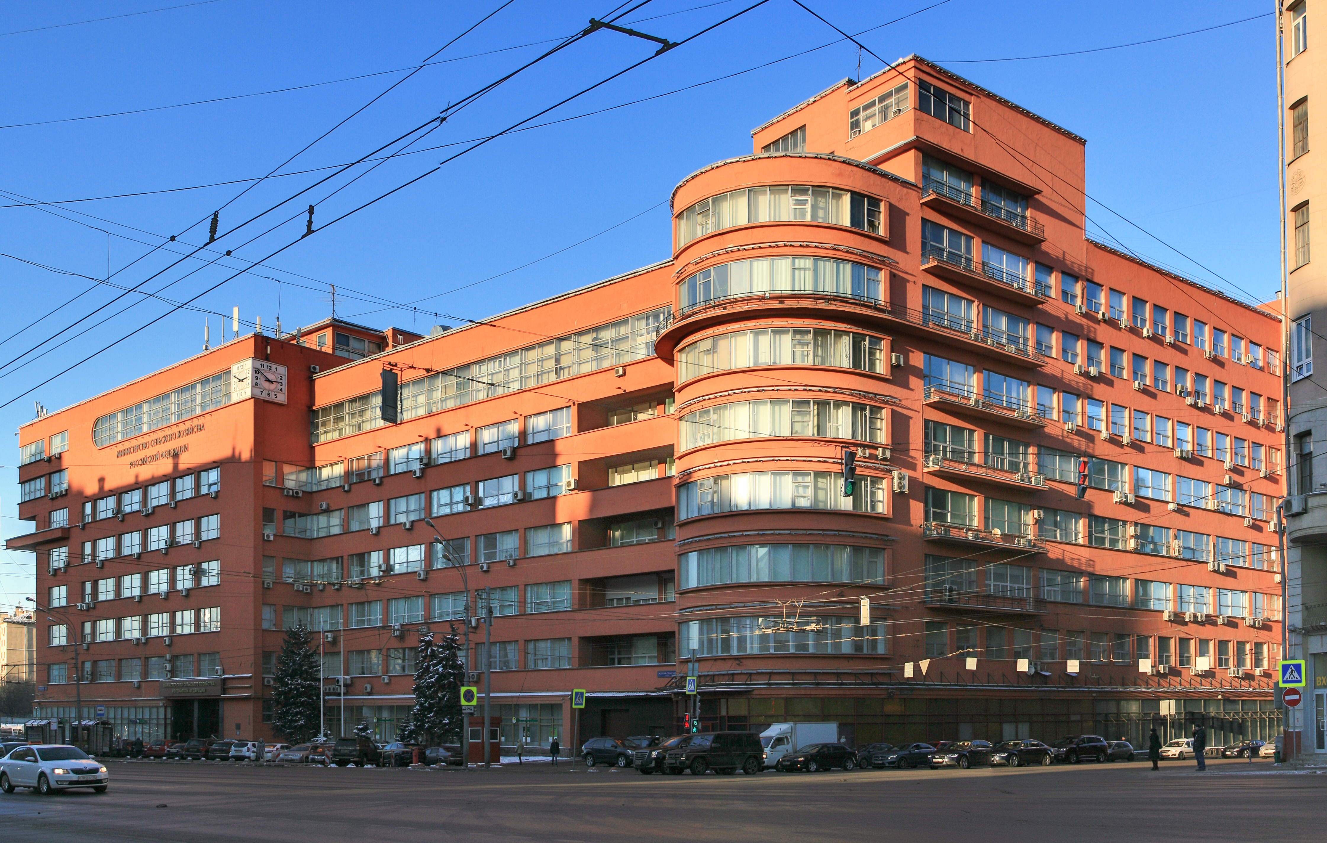 Narkomzem Building, Moscow, built 1929